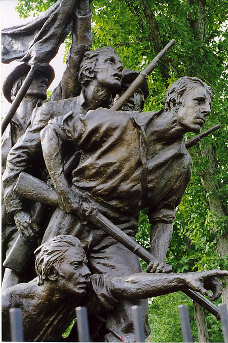 Monument depicting North Carolinian soldiers who fought during the Battle of Gettysburg